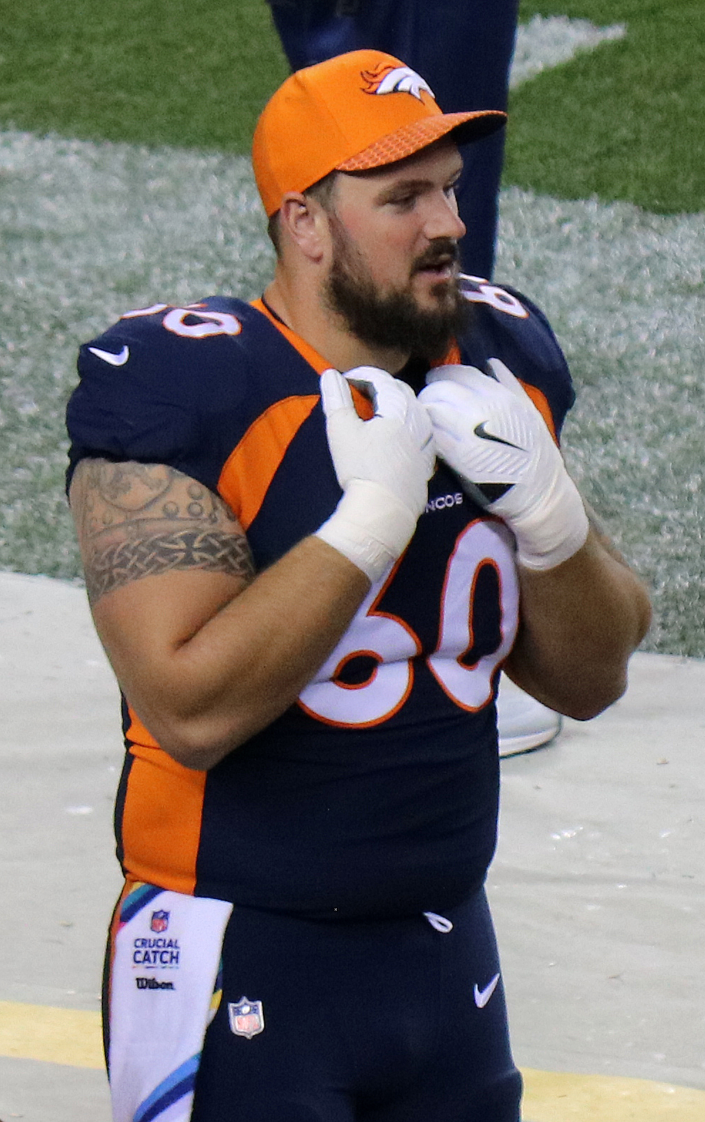 Connor McGovern, a player on the National Football League.